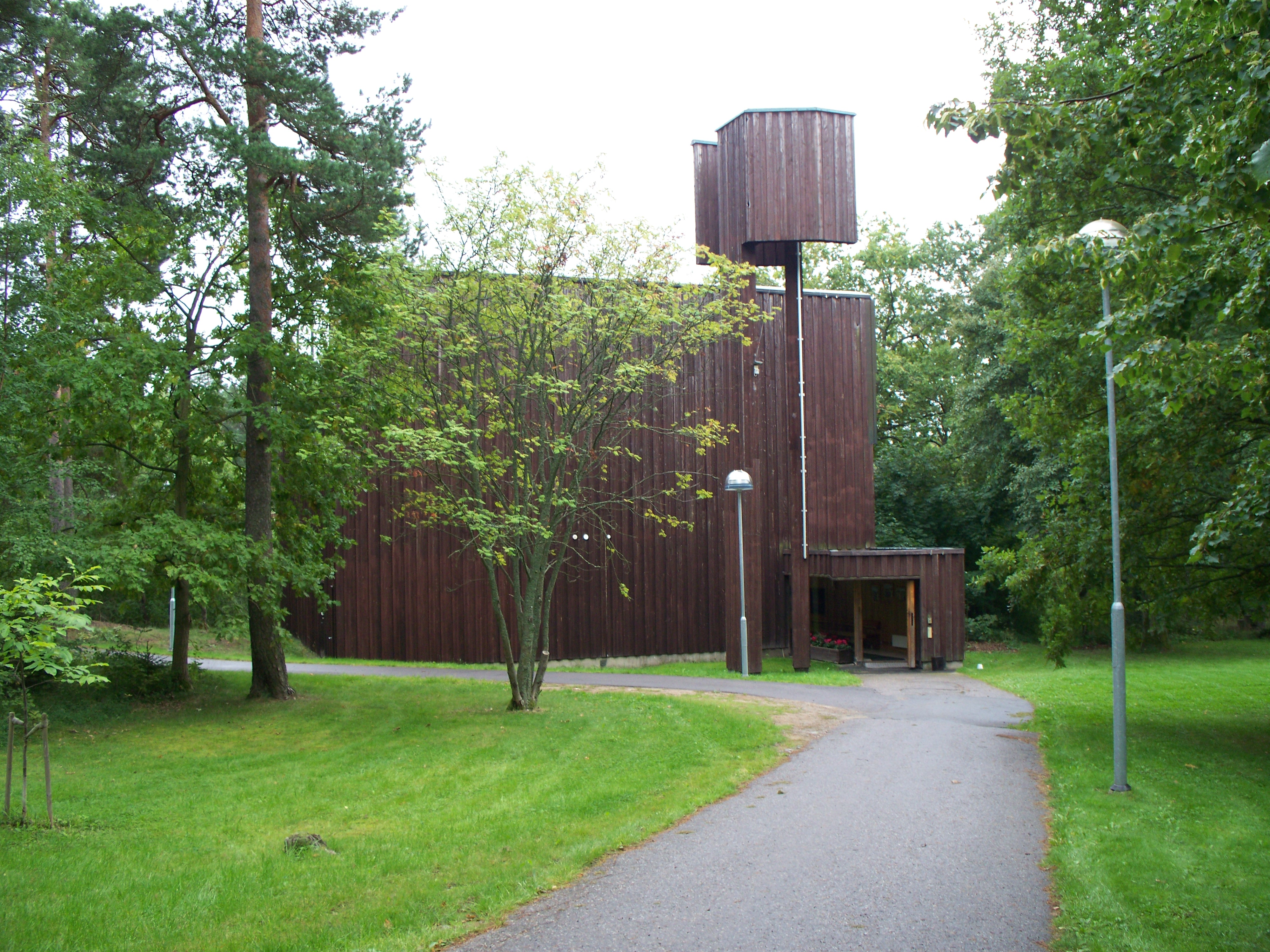 Chapel. Built 1966. architect Carl Nyrén